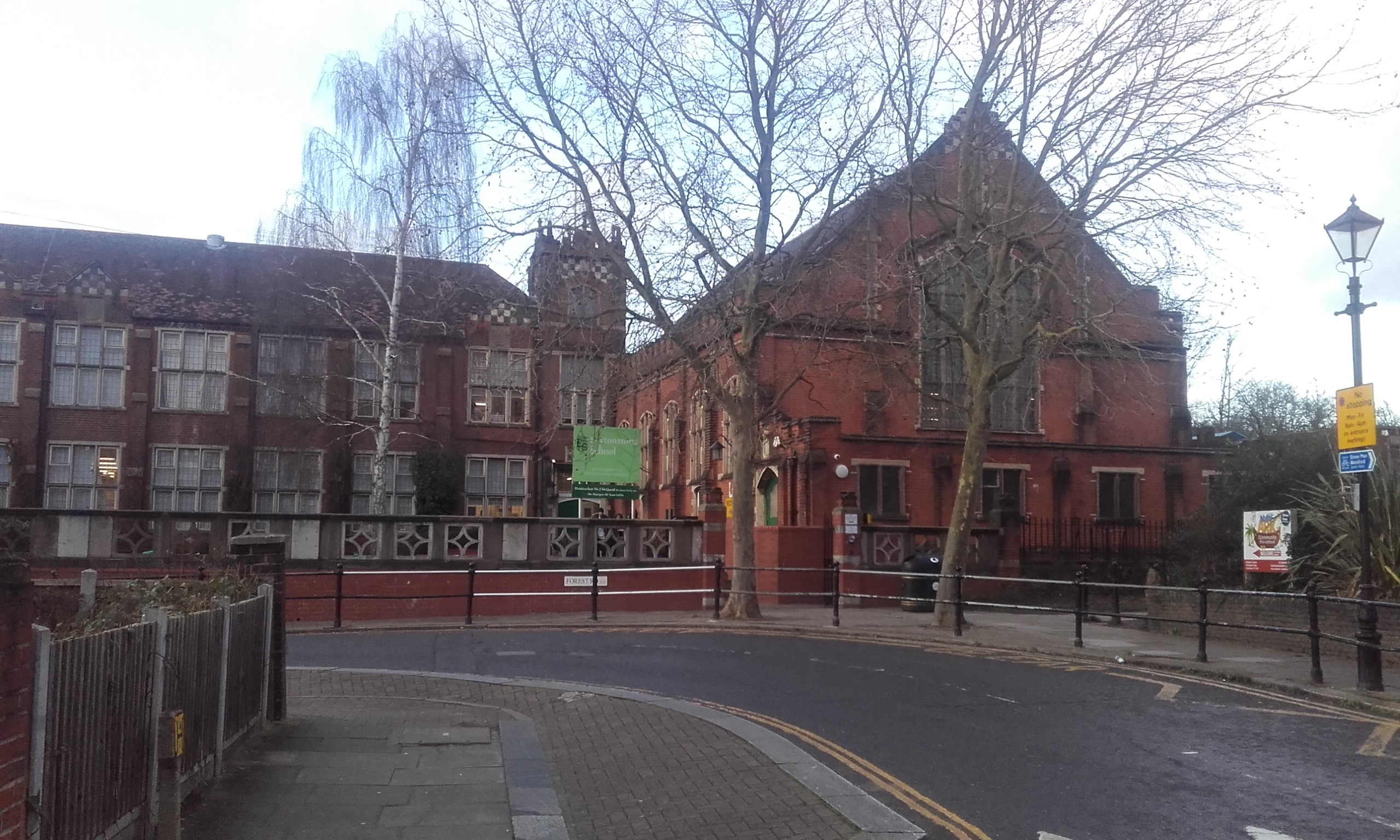 Leyton County High School Girls in Colworth Road, Leytonstone, was designed by William Jacques ARIBA, architect to the Leyton Urban District Council, in a simplified Tudor-style. The school opened in 1911 as a girls' grammar school. In 1985, it became Leytonstone School, a coeducational comprehensive.